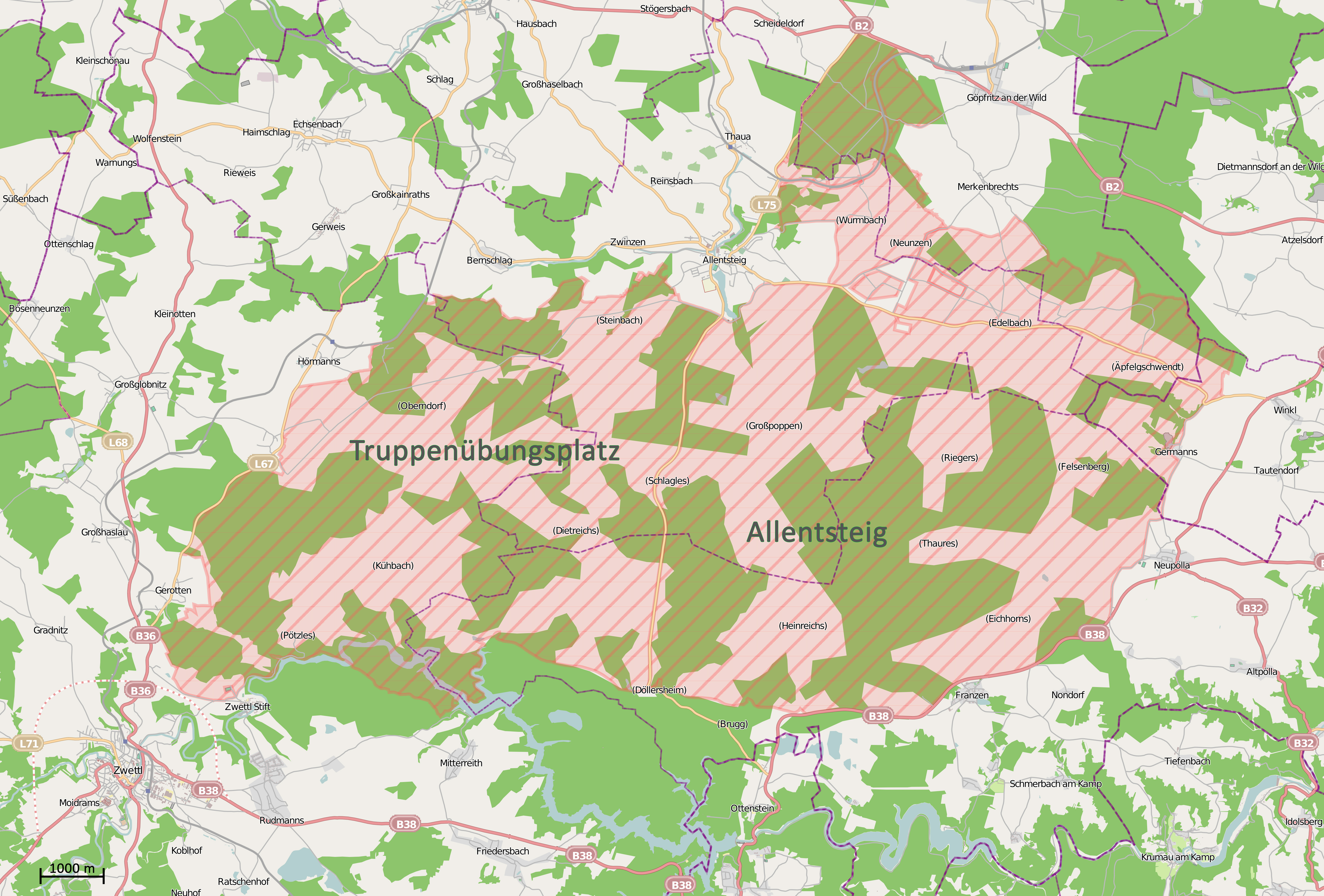 military training area Allentsteig in Lower Austria, Austria